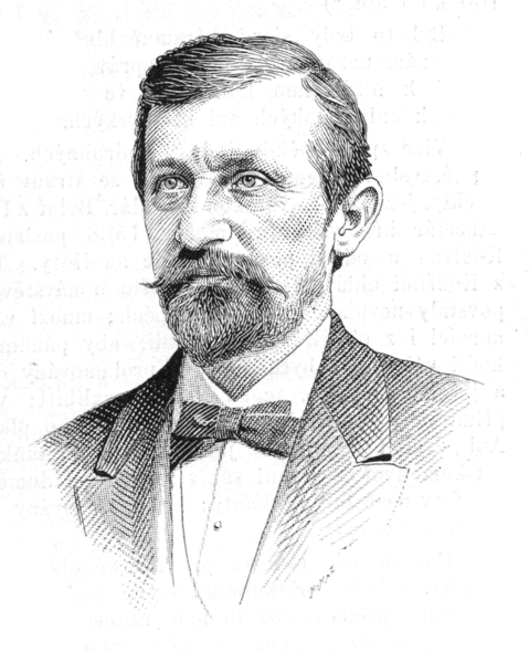 Portrait of Václav Nekvasil (1840-1906), Czech architect and construction enterpreneur. Cropped from a gallery of board members of Centennial Exhibition in Prague 1891.